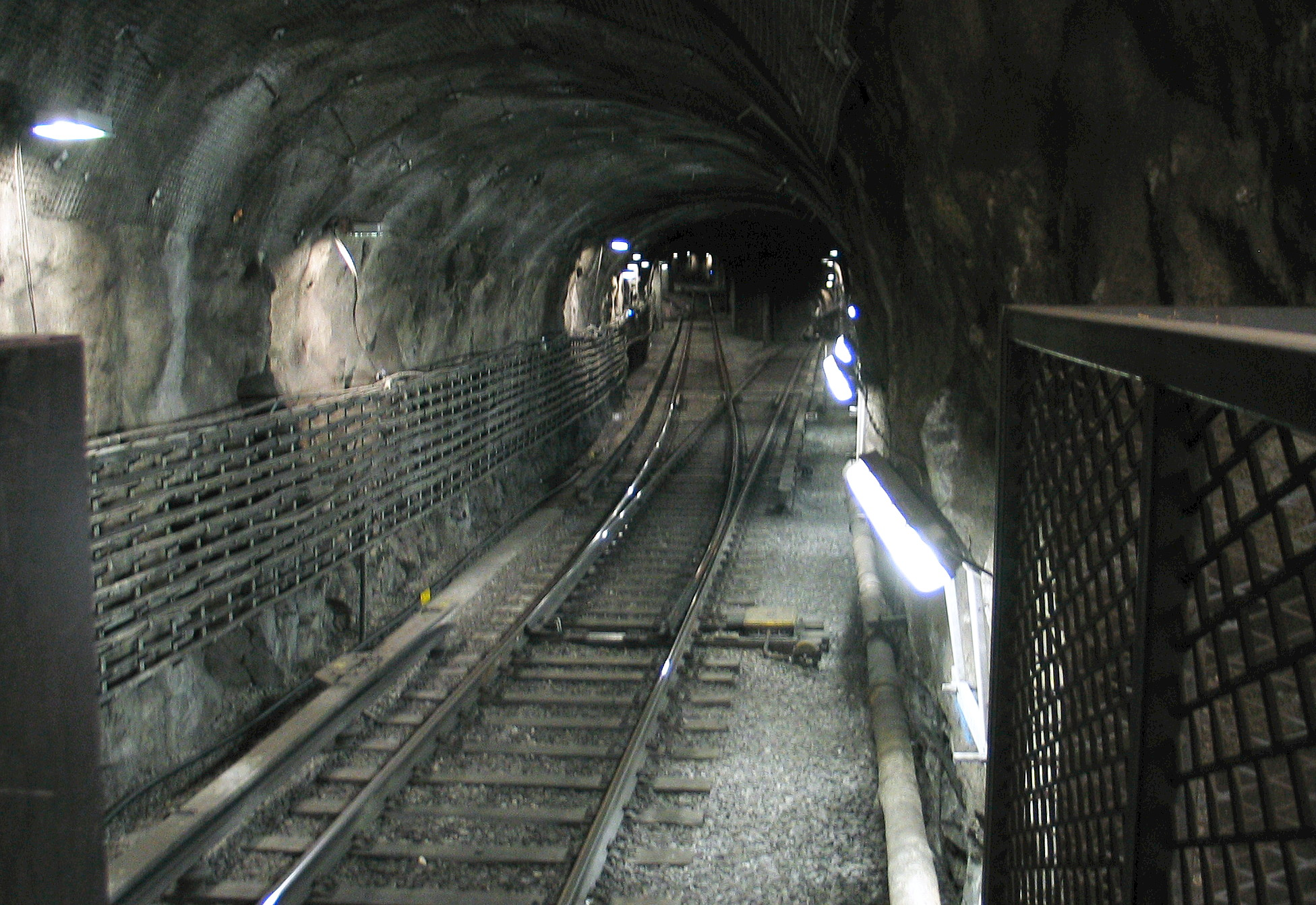 Stockholm Metro, track switch at Östermalmstorg leading to Ropsten or Mörby centrum.